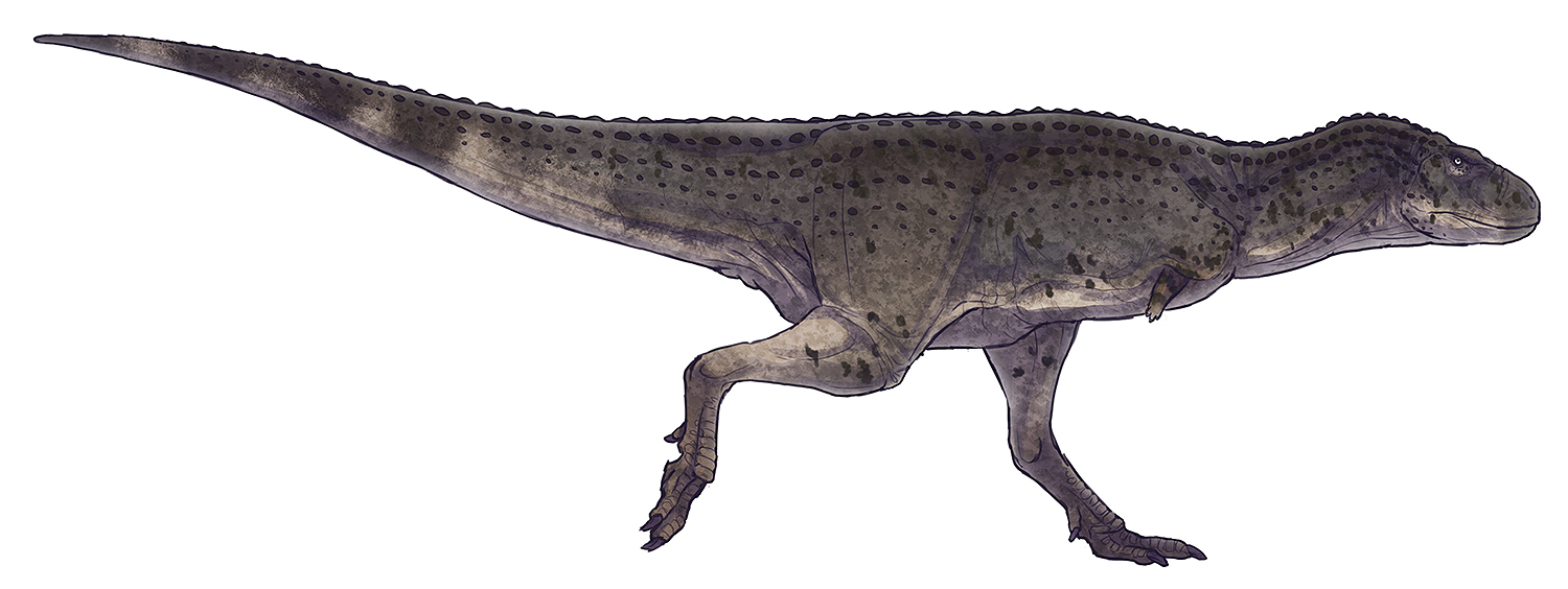 Aucasaurus garridoi. Based on Holotype MCF-PVPH-236; Coria et al., 2002